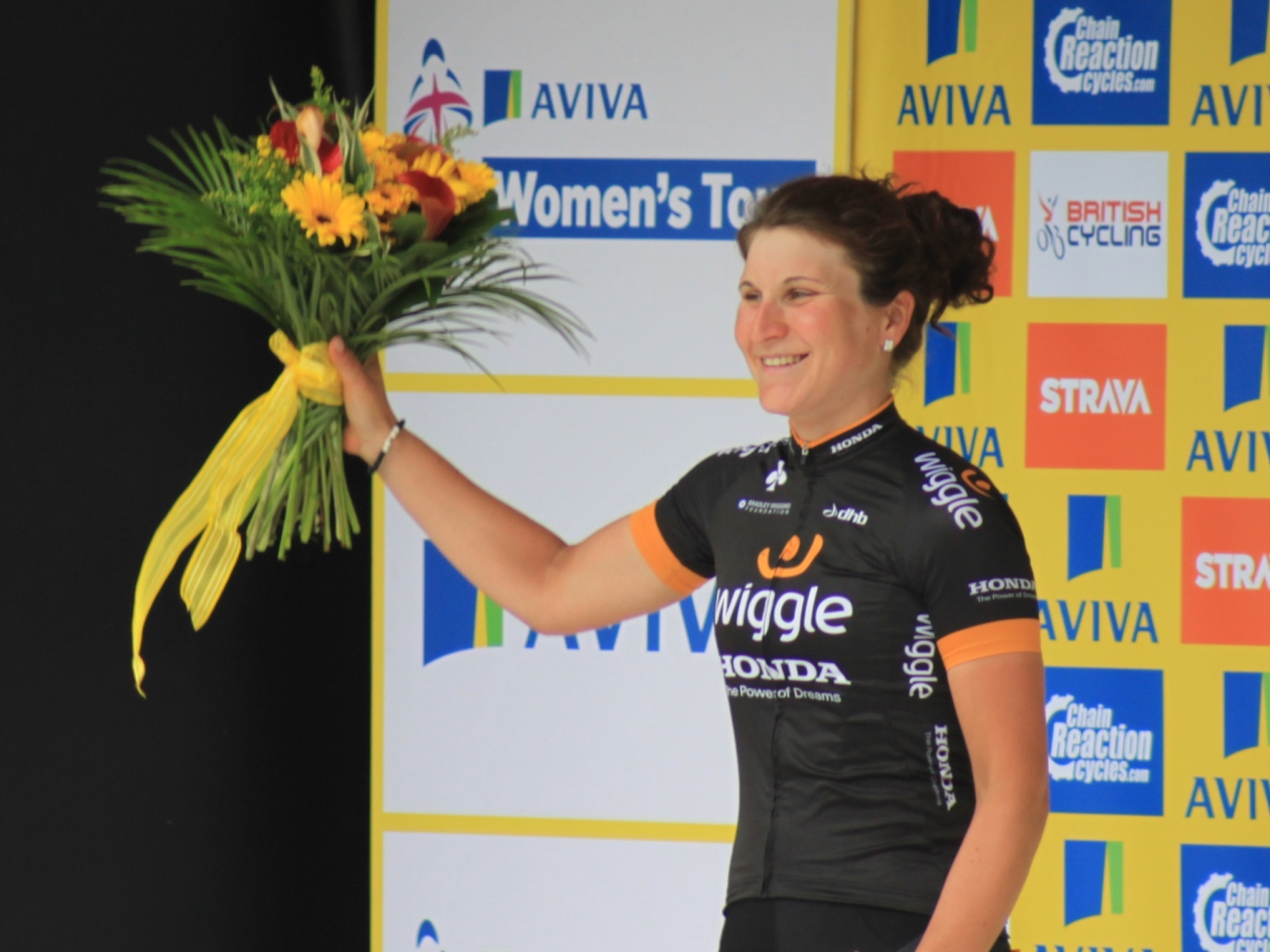 Elisa Longo-Borghini of the Wiggle Honda Team was judged the most combatative rider in stage 5 of The 2015 Women's Tour.